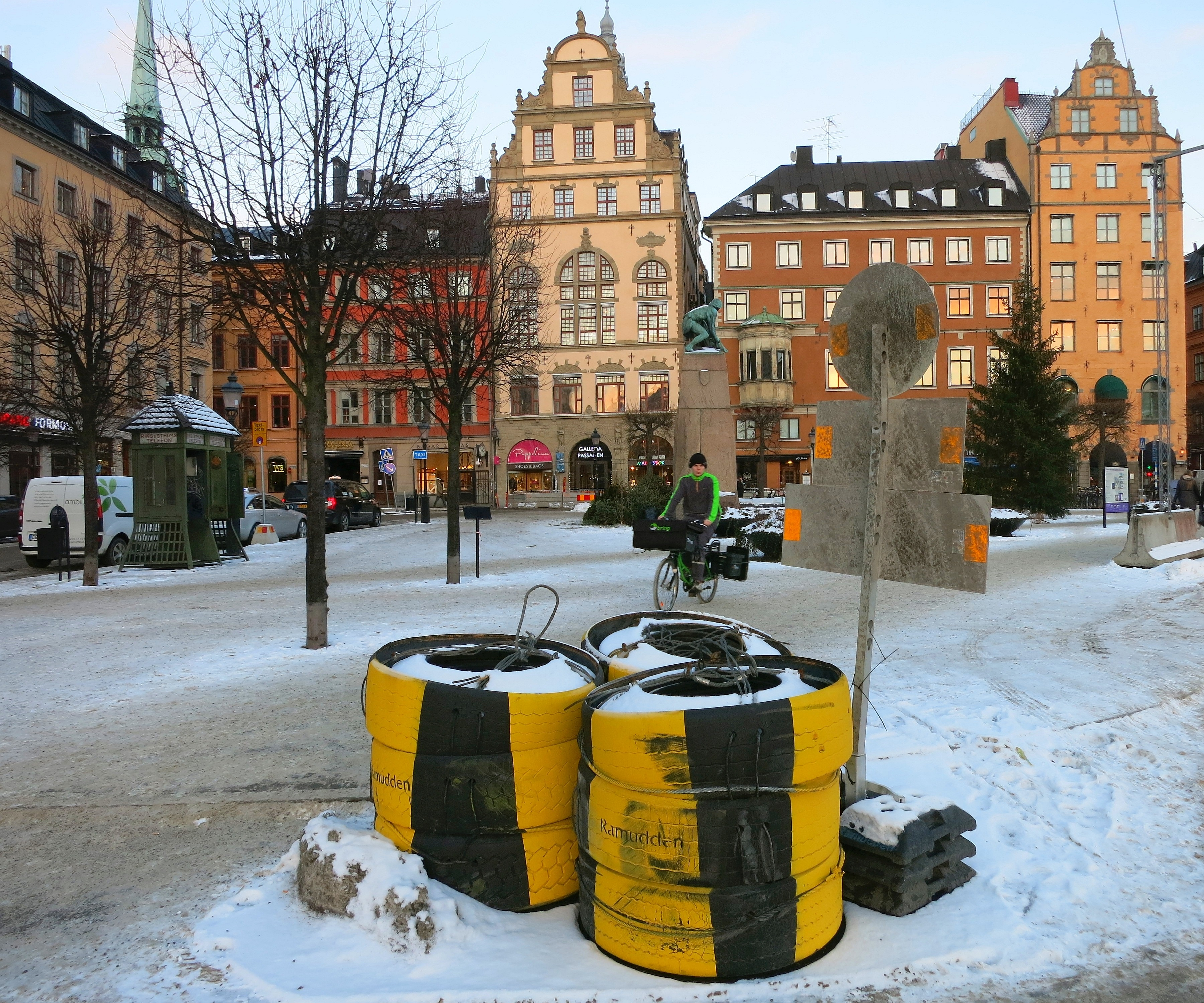 Creative reuse of old tyres in Stockholm